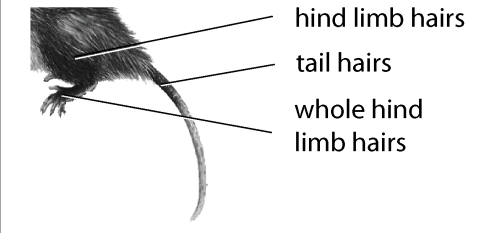 Standard Event System character depiction